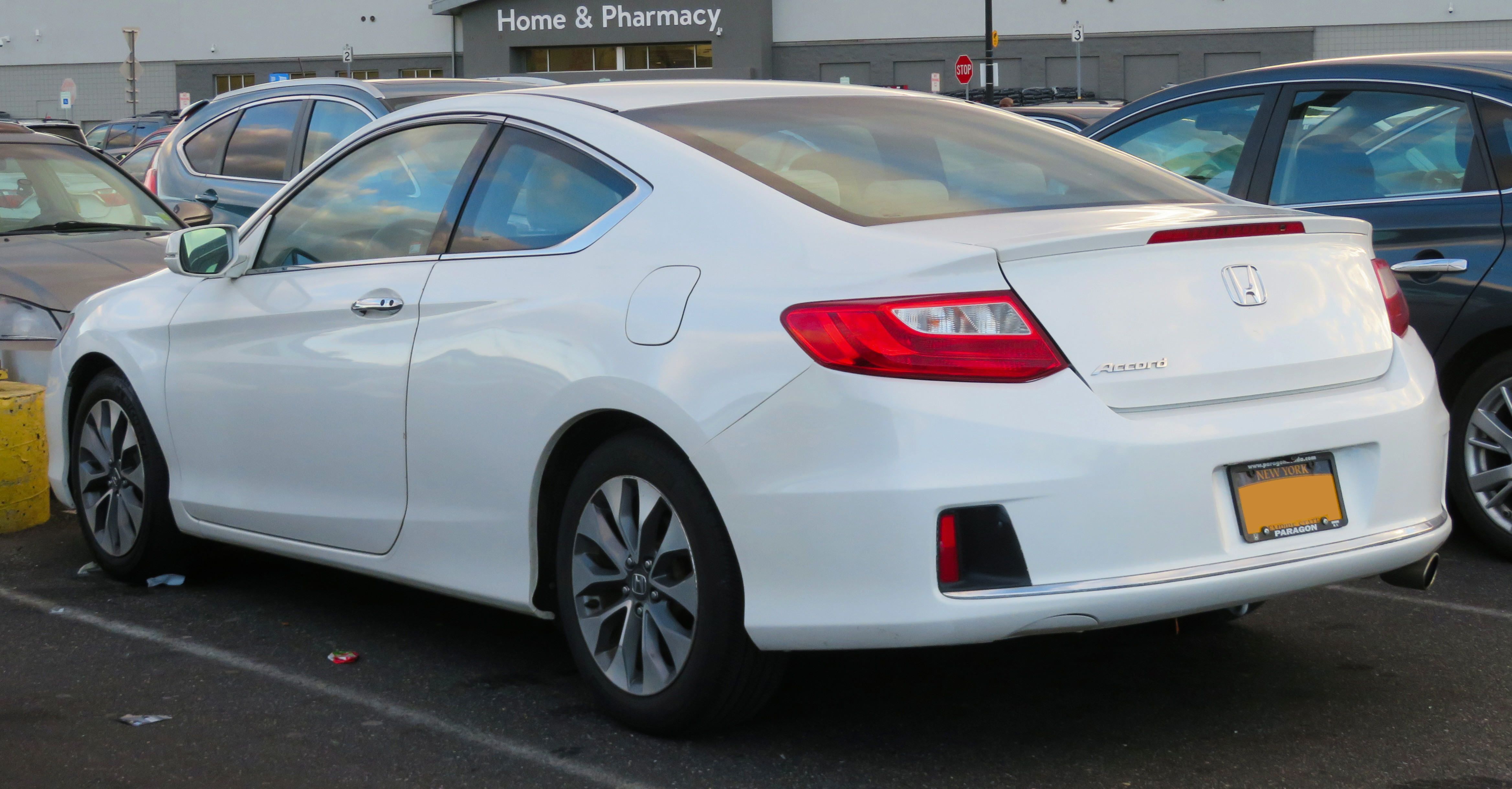 A 2013 Honda Accord coupe photographed in Green Acres Mall parking lot, Valley Stream, New York, USA